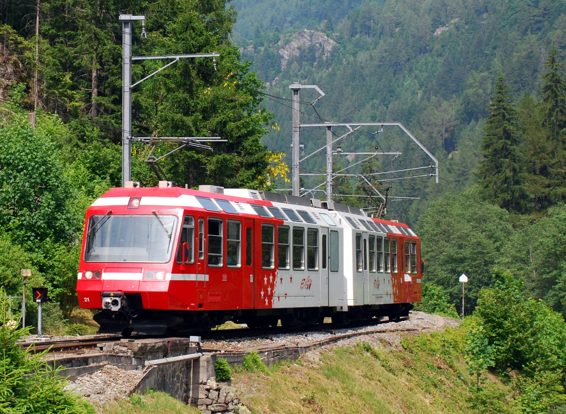 TMR BDeh 4/8 21 (coaches 821/822) approaching Châtelard-Frontière